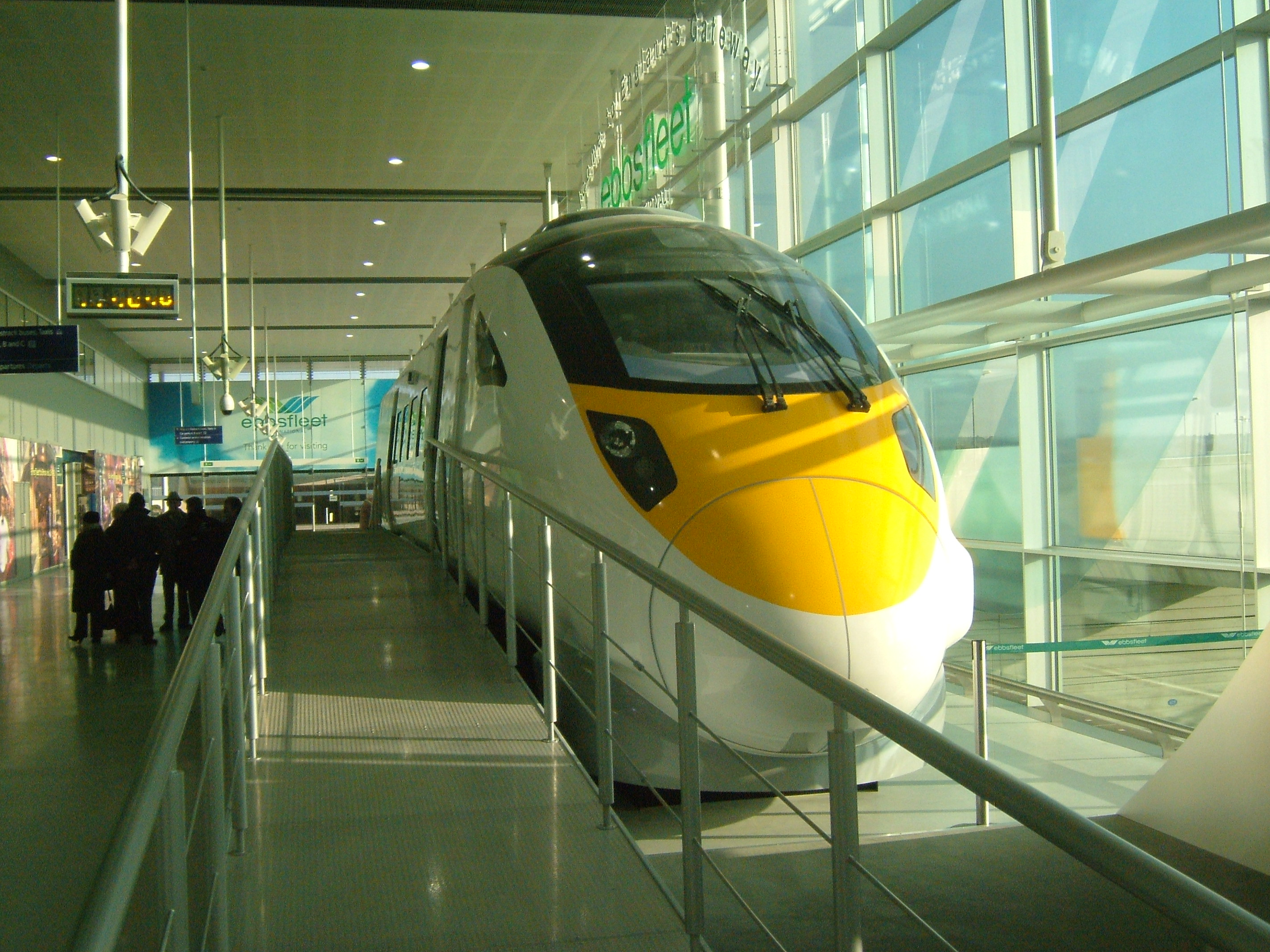 Ebsfleet International railway station. Mock up of the Hitachi Domestic unit